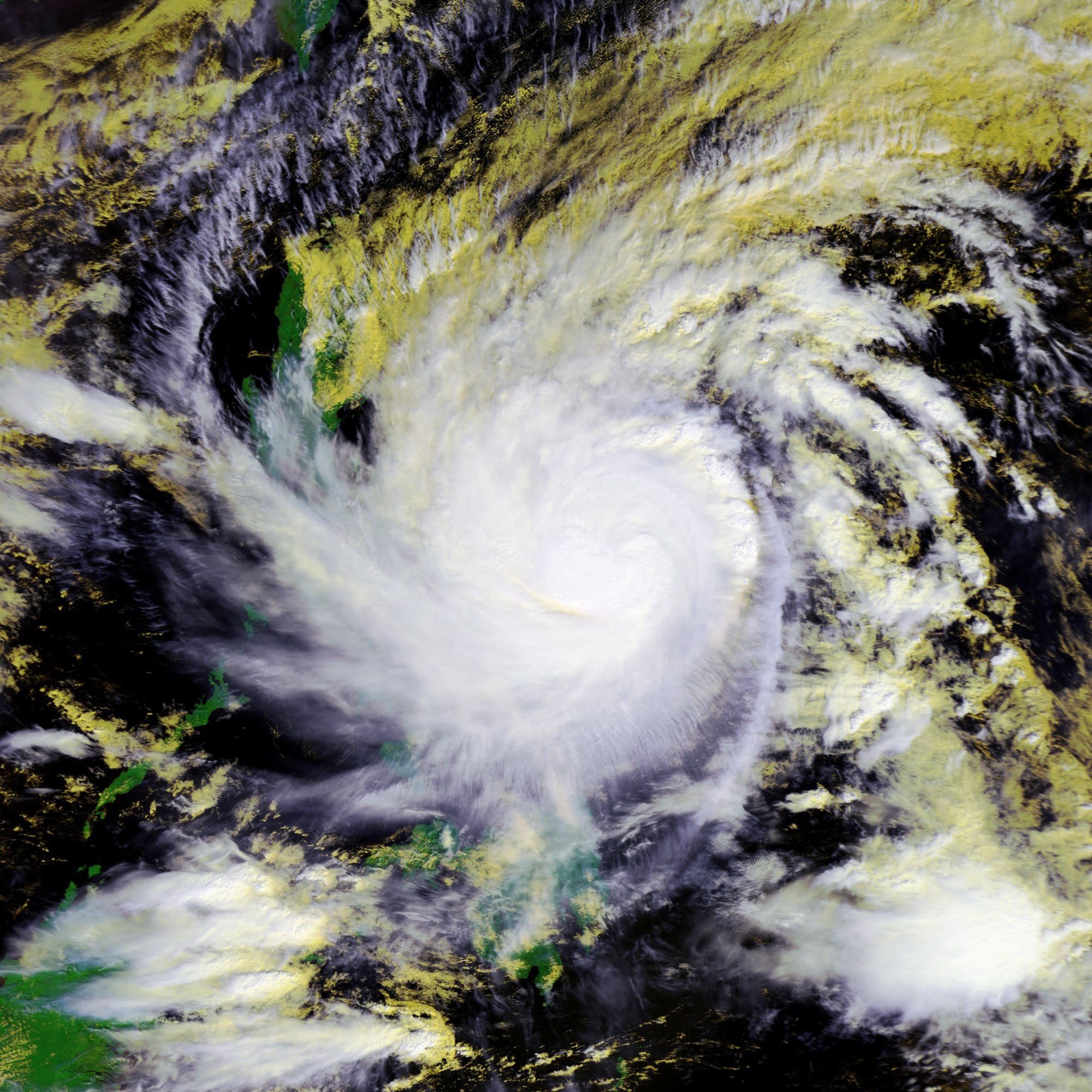 Typhoon Mitag on November 23 at approximately 0146 UTC. This image was produced from data from NOAA-17, provided by NOAA.